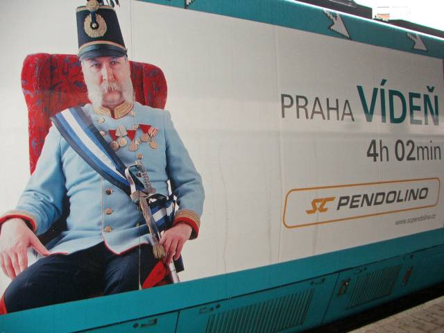 The advertisement which can be seen on the side of the train, which is the short procession, time advertises it. Vienna Südbahnhof 2007.